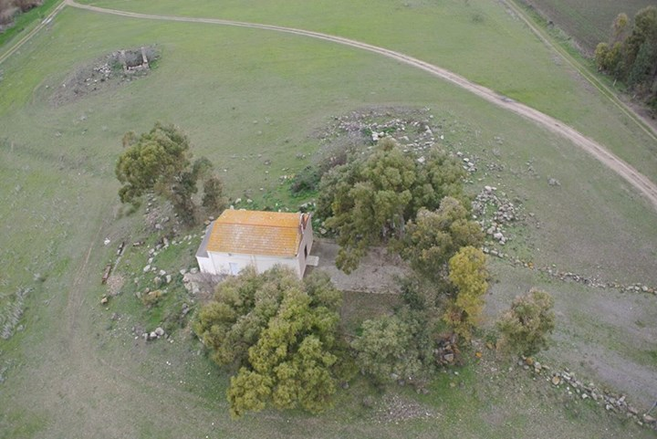 aerial view of Santu Sciori